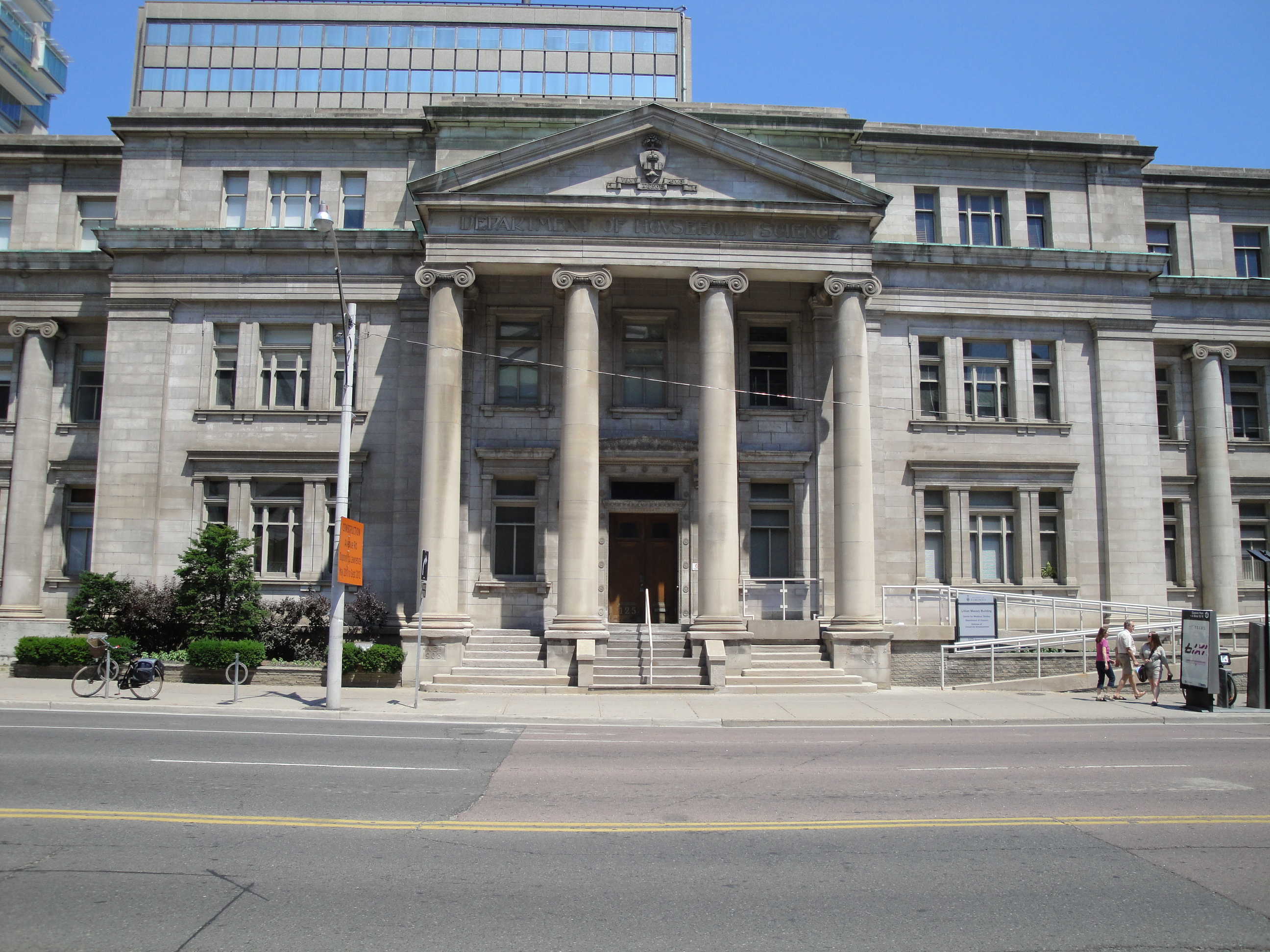 Lillian Massey Building, Department of Classics, University of Toronto